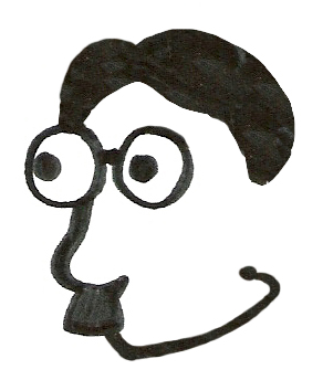 Ricardo Reis